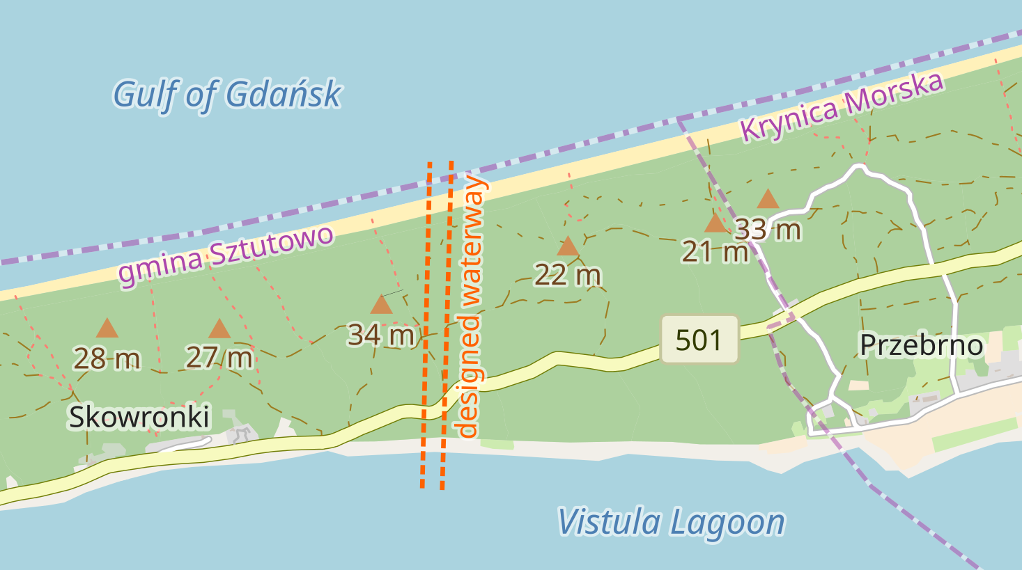 Location of a proposed Nowy Świat canal connecting Gdańsk Bay and Vistula Lagoon across Vistula Spit. Location of a proposed Nowy Świat canal connecting Gdańsk Bay and Vistula Lagoon across Vistula Spit. This map of western part of Vistula Spit was created from OpenStreetMap project data, collected by the community. This map may be incomplete, and may contain errors. Don't rely solely on it for navigation.